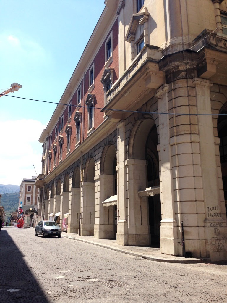 L'aquila